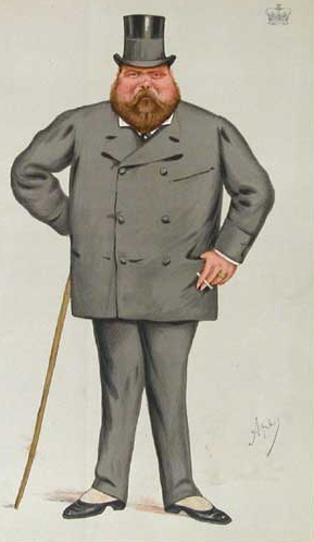 Caricature of Henry Wellesley, 3rd Duke of Wellington. Caption read "the Iron Duke's Grandson".